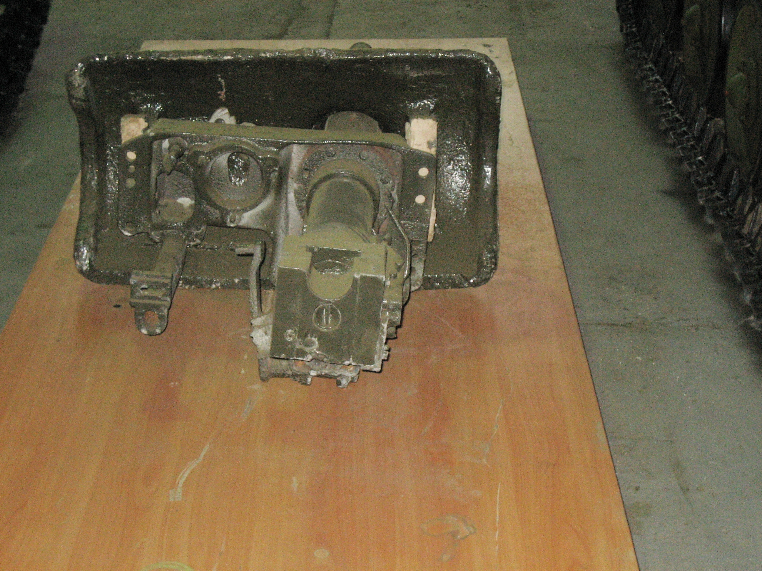 Soviet 45-mm tank gun obr.1938 (20K), displayed in Kubinka Tank Museum. Photo taken on September 9, 2007. Source: Photo by me, User:Saiga20K.